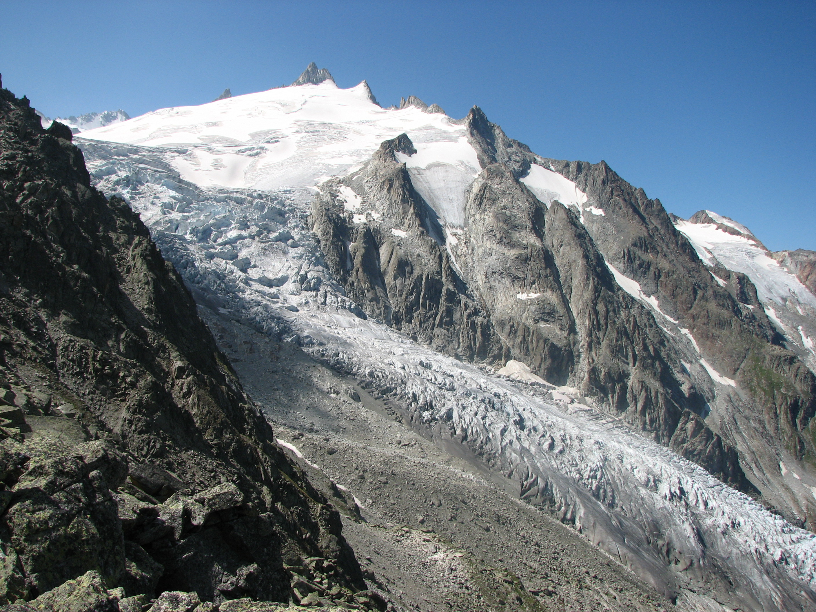 Fenetre d'Arpette (2665m), the joint highest point on the Tour with the Col des Fours. Looking at the Plateau and Glacier du Trient.